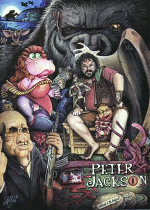 Ballpoint pen portrait on 21 x 29 cm format